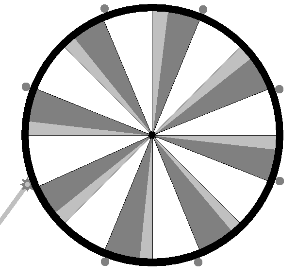 turbine rotor with blades mounted at outer ending